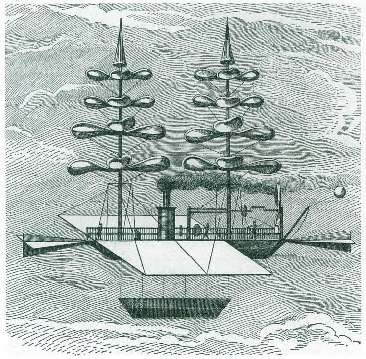 Dessin of Gabriel de La Landelle's imaginary steam-powerd-helicopter.